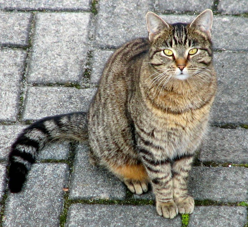 Domestic Tabby cat